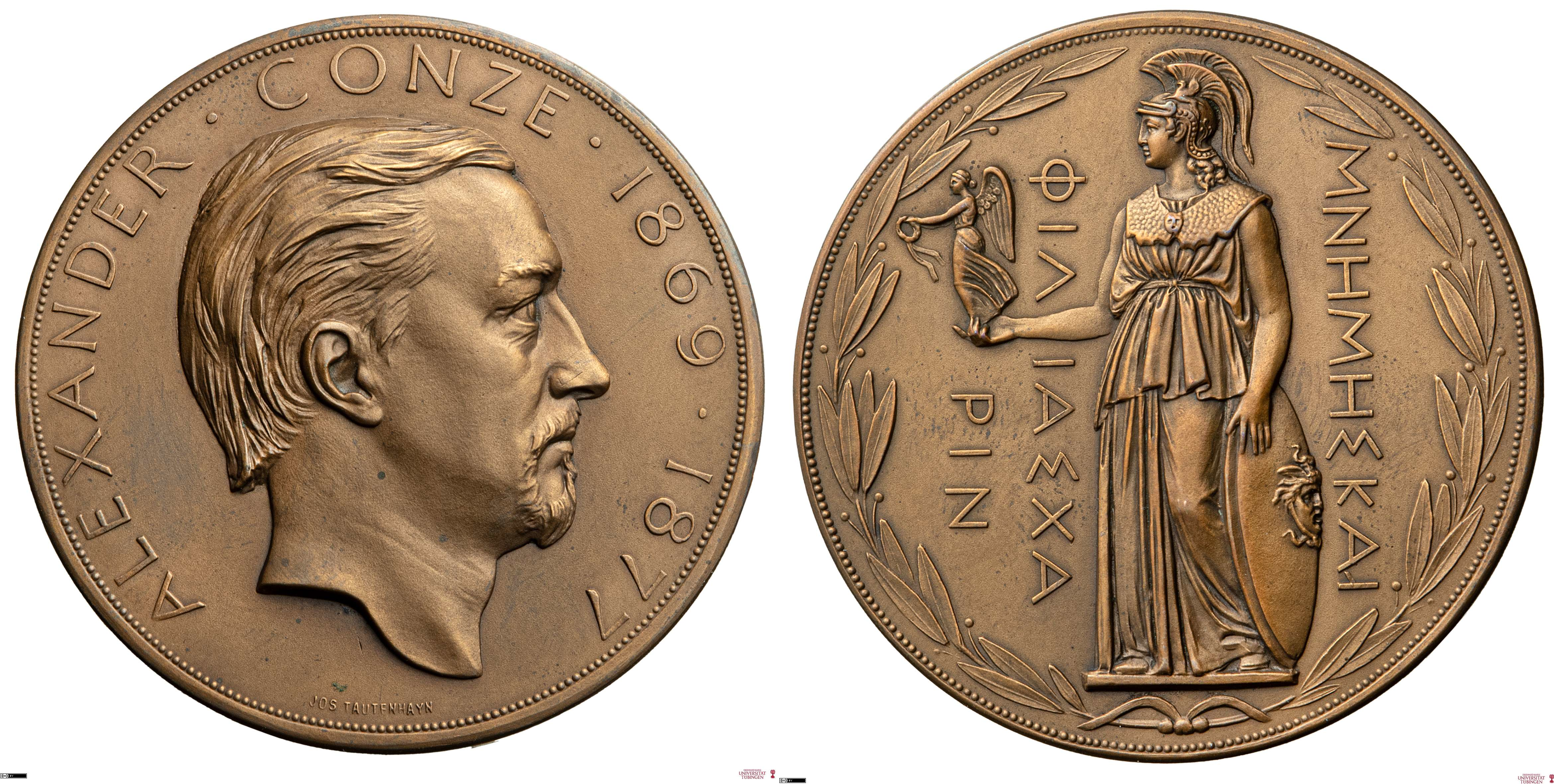 The front side shows a bust of Conze and lists his name with the years 1869 and 1877. The engraver signed below the bust. The back side shows an image of the Athena Parthenos accompanied by an ancient Greek dedication. Together they are enclosed by a laurel wreath.